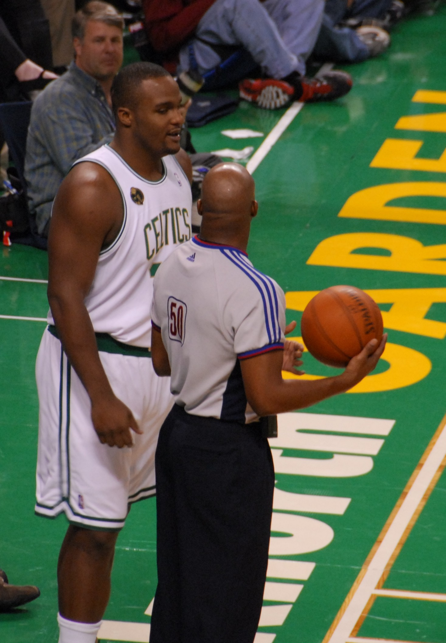 The American basketball player Glen Davis